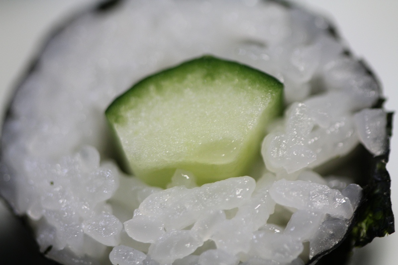 Kappamaki , sushi